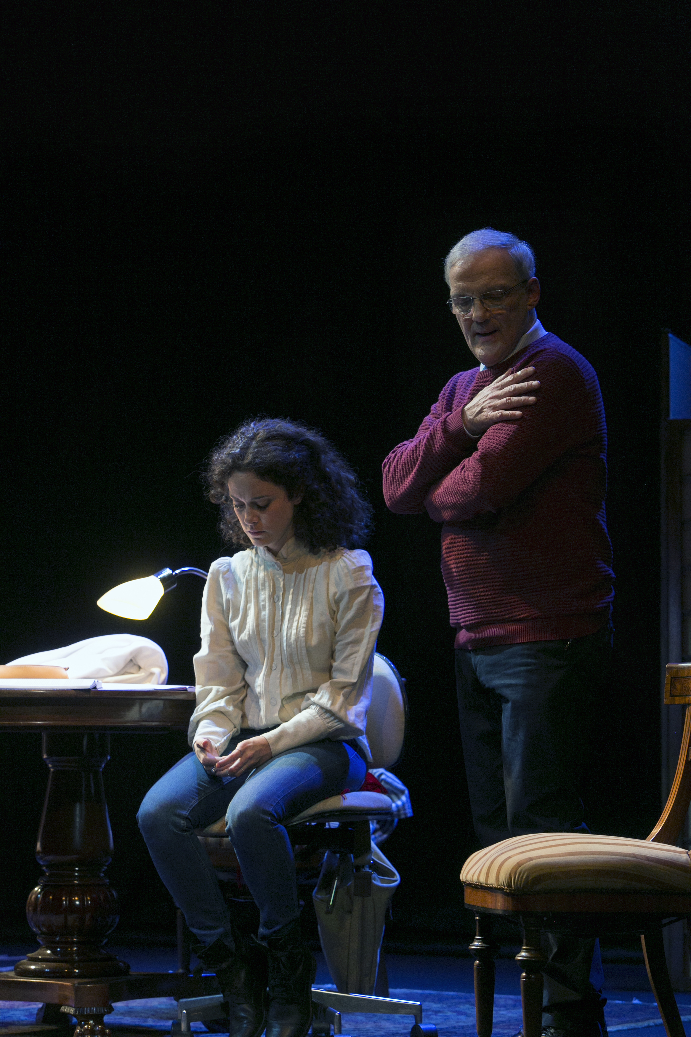 Mathilde Norholt and Preben Kristensen in the Copenhagen theater Folketeatret's production of the play "Skærmydsler" by Gustav Wied.